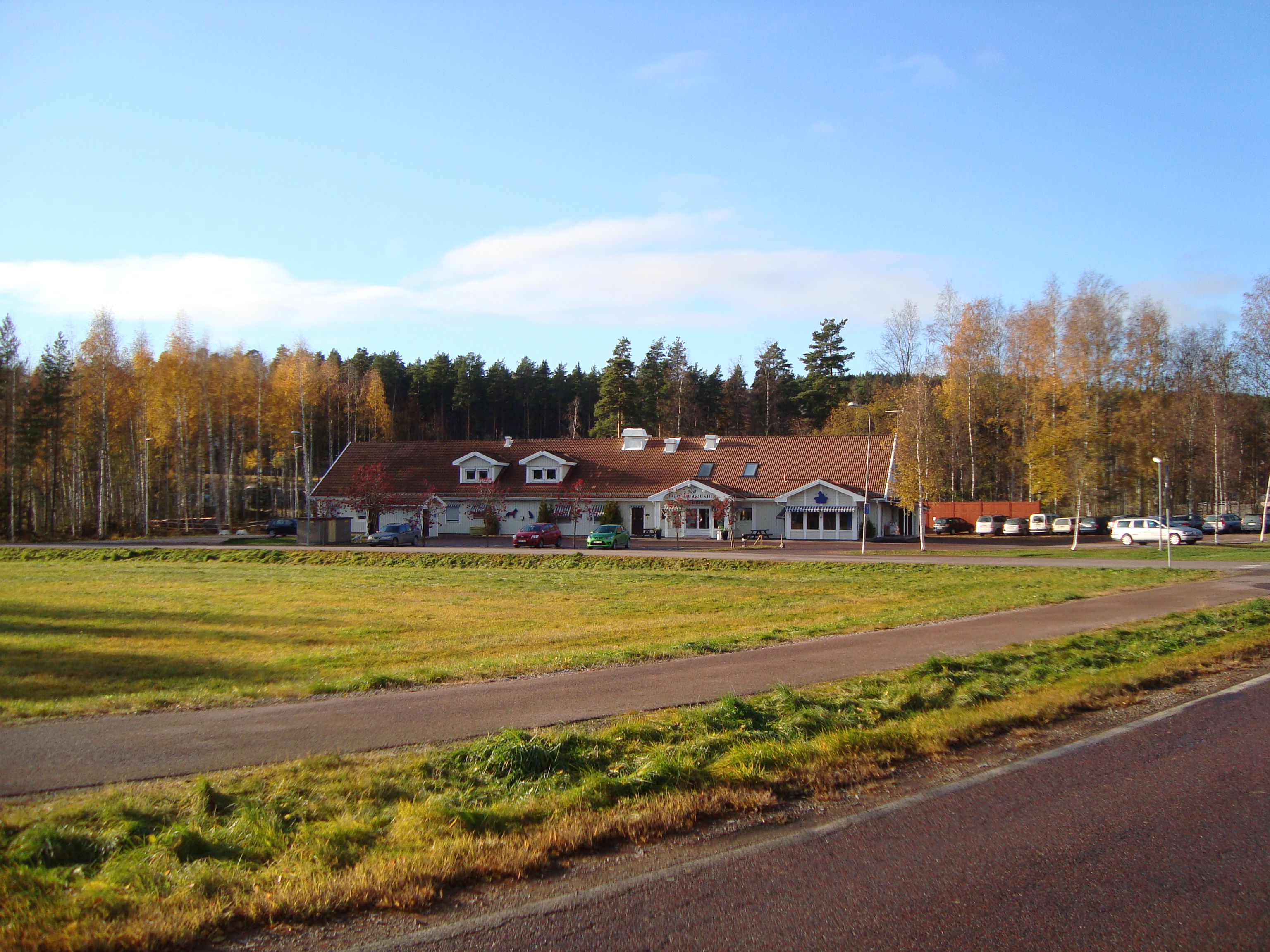 The pet hospital in Falun, Sweden